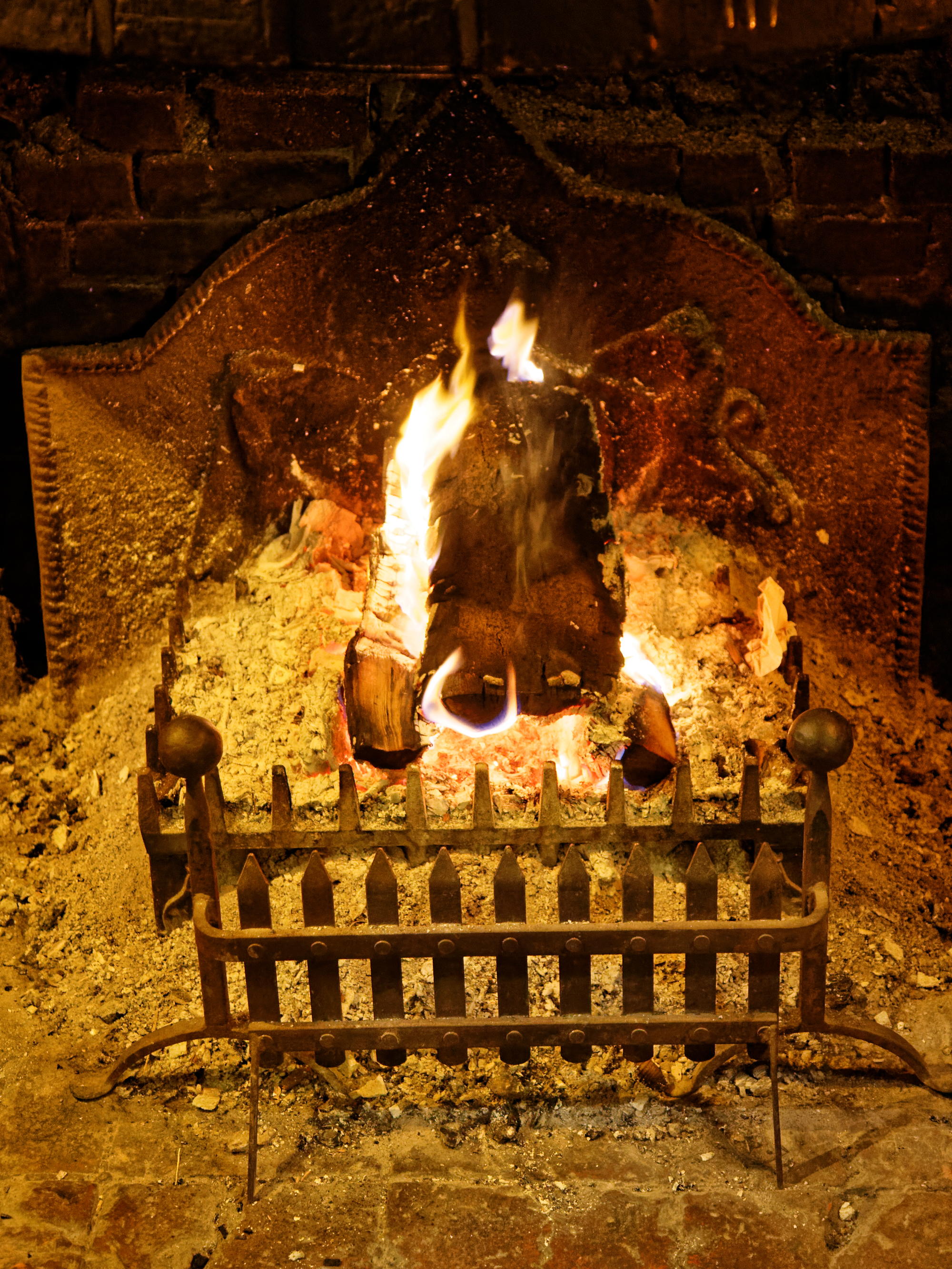 Hearth fire grate with open fire in the bar of The Black Horse Inn public house, one of Sussex's most haunted pubs, on Nuthurst Street in Nuthurst, West Sussex, England. The Black Horse Inn, reputedly haunted by a local murderer who drank here, his table just to the right of the fire, is part of the 17th-century Black Horse Cottages Grade II listed buildings.Camera: Canon EOS 6D with Canon EF 24-105mm F4L IS USM lens.Software: RAW file lens-corrected and optimized with DxO OpticsPro 11 Elite and Viewpoint 2, and further optimized with Adobe Photoshop CS2.